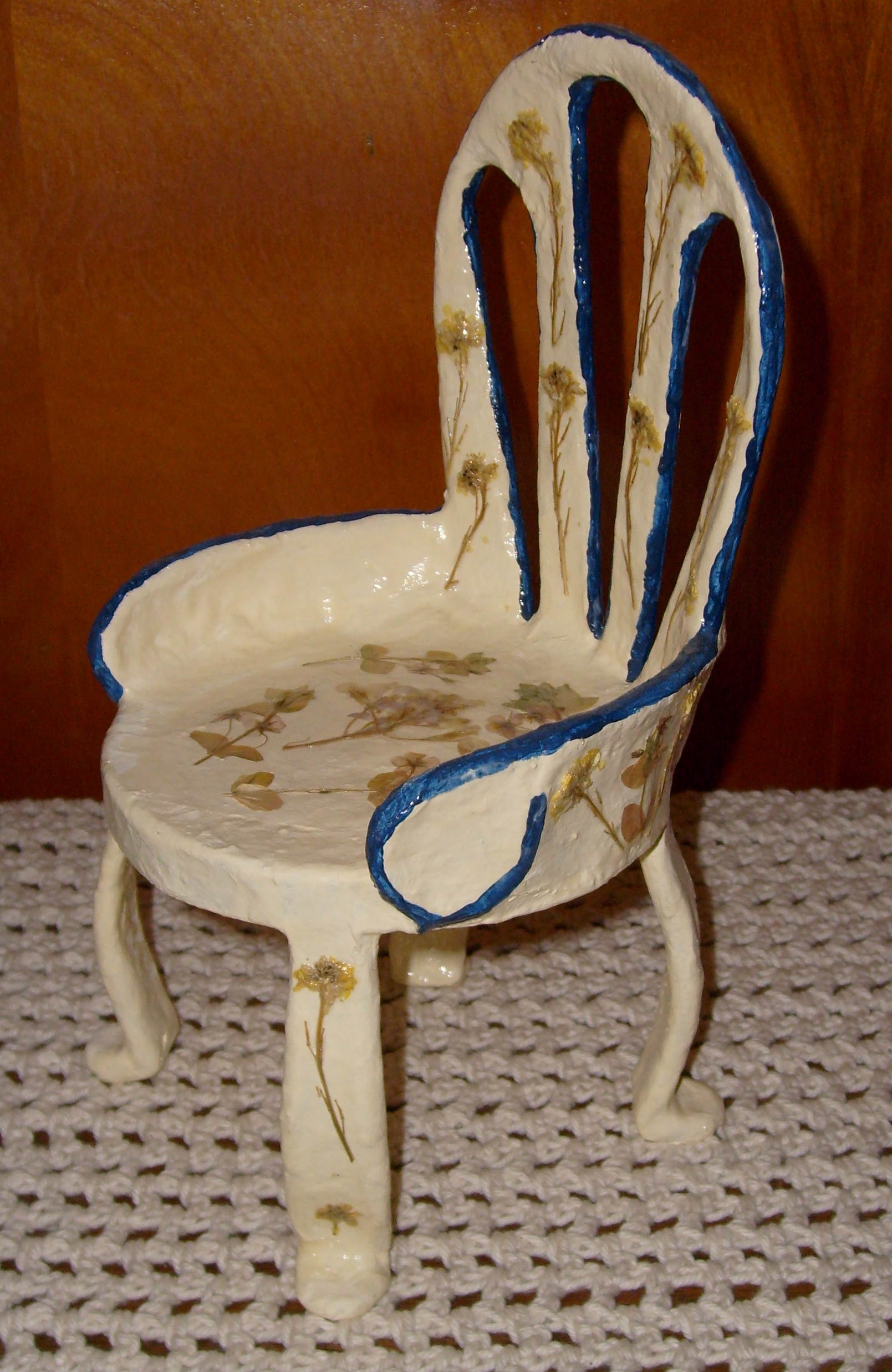 Miniature chair, approx. 10" tall. Paper mache on wire frame, painted, with decoupaged wildflowers. Original design